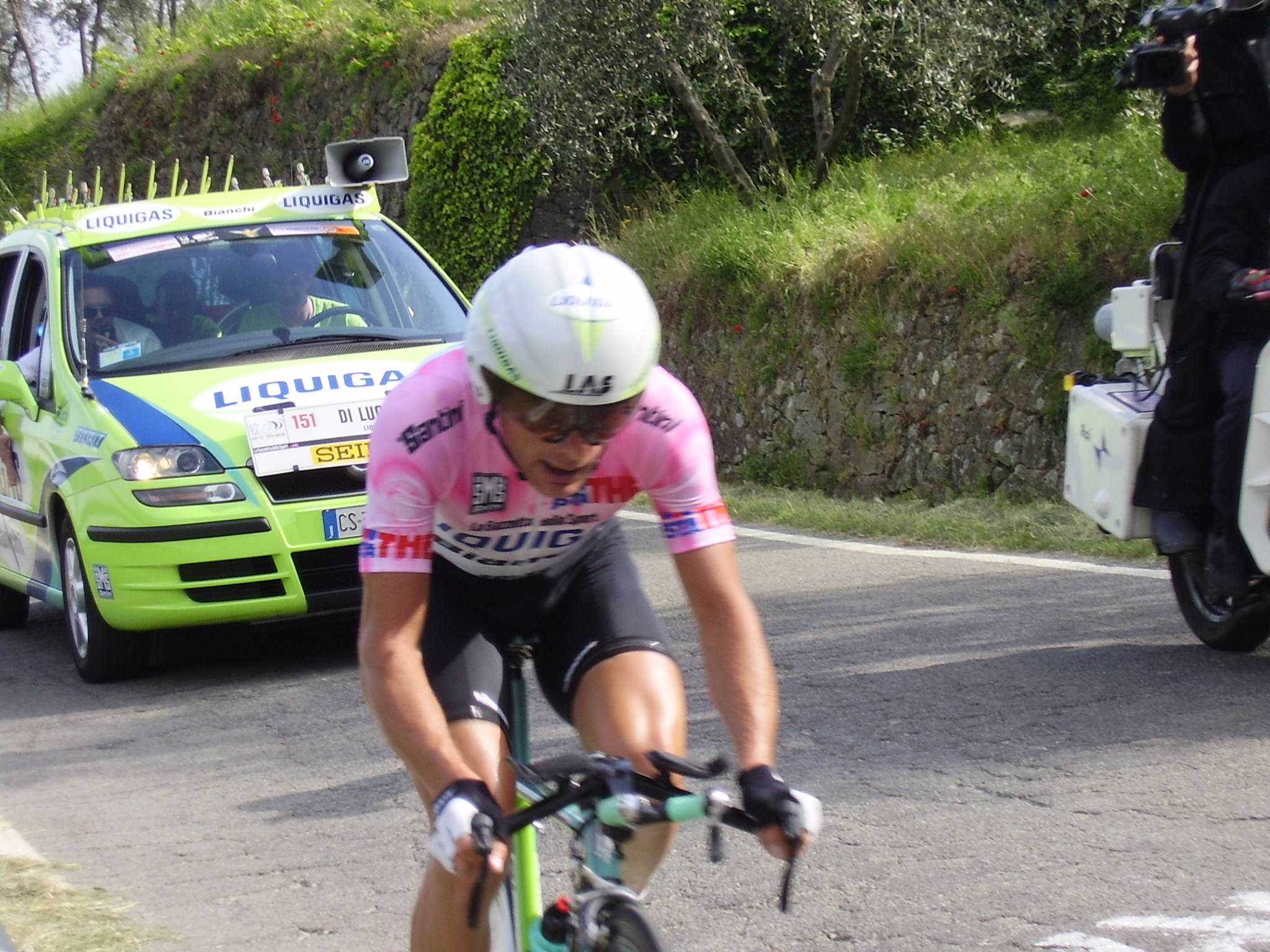 Danilo Di Luca during the 88th Giro d'Italia (2005)